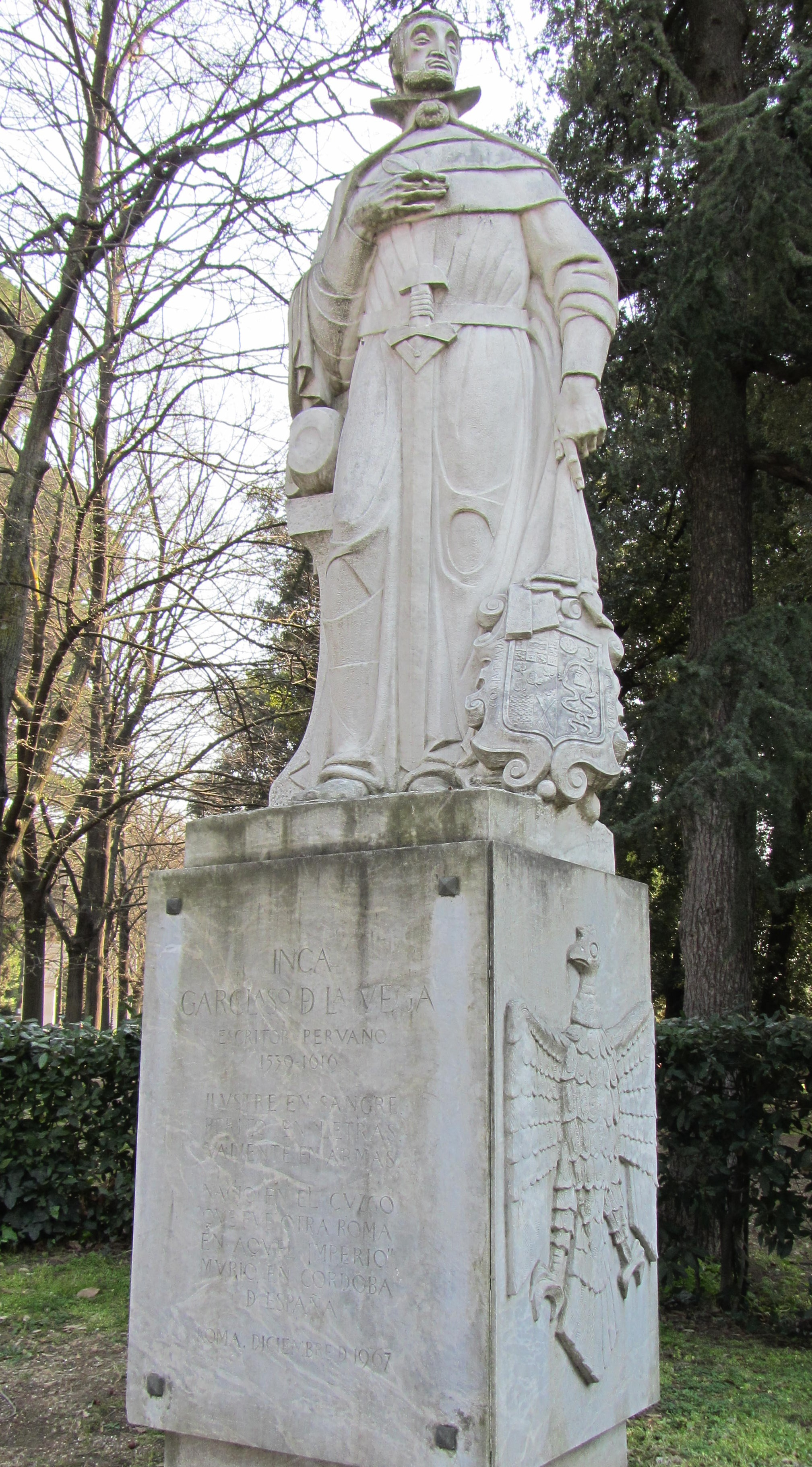 Statue of Peruvian writer Garcilosa de la Vega near Villa Borghese in Rome